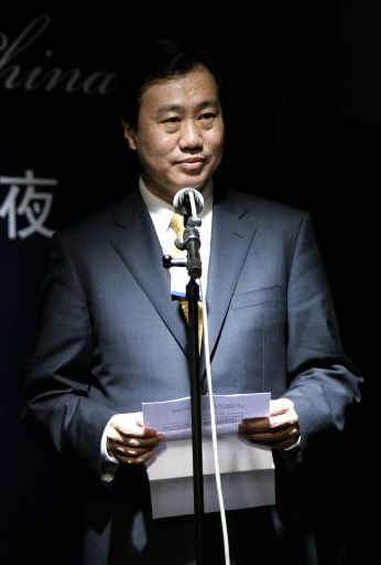 DAVOS/SWITZERLAND, 25JAN07 - Xia Deren, Mayor of Dalian, People's Republic of China, Hua Jianmin, State Councillor and Secretary-General, State Council of the People's Republic of China, People's Republic of China and Klaus Schwab, Founder and Executive Chairman, World Economic Forum, captured at the Post Hotel during the Annual Meeting 2007 of the World Economic Forum in Davos, Switzerland, January 25, 2007.